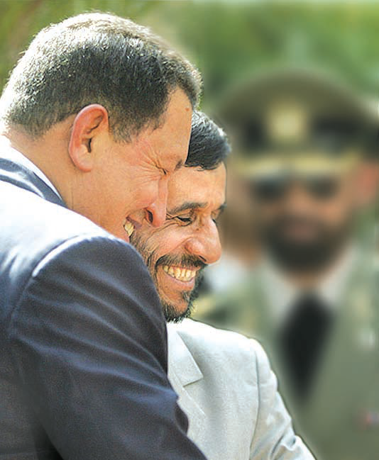 Mahmoud Ahmadinejad - July 19, 2006